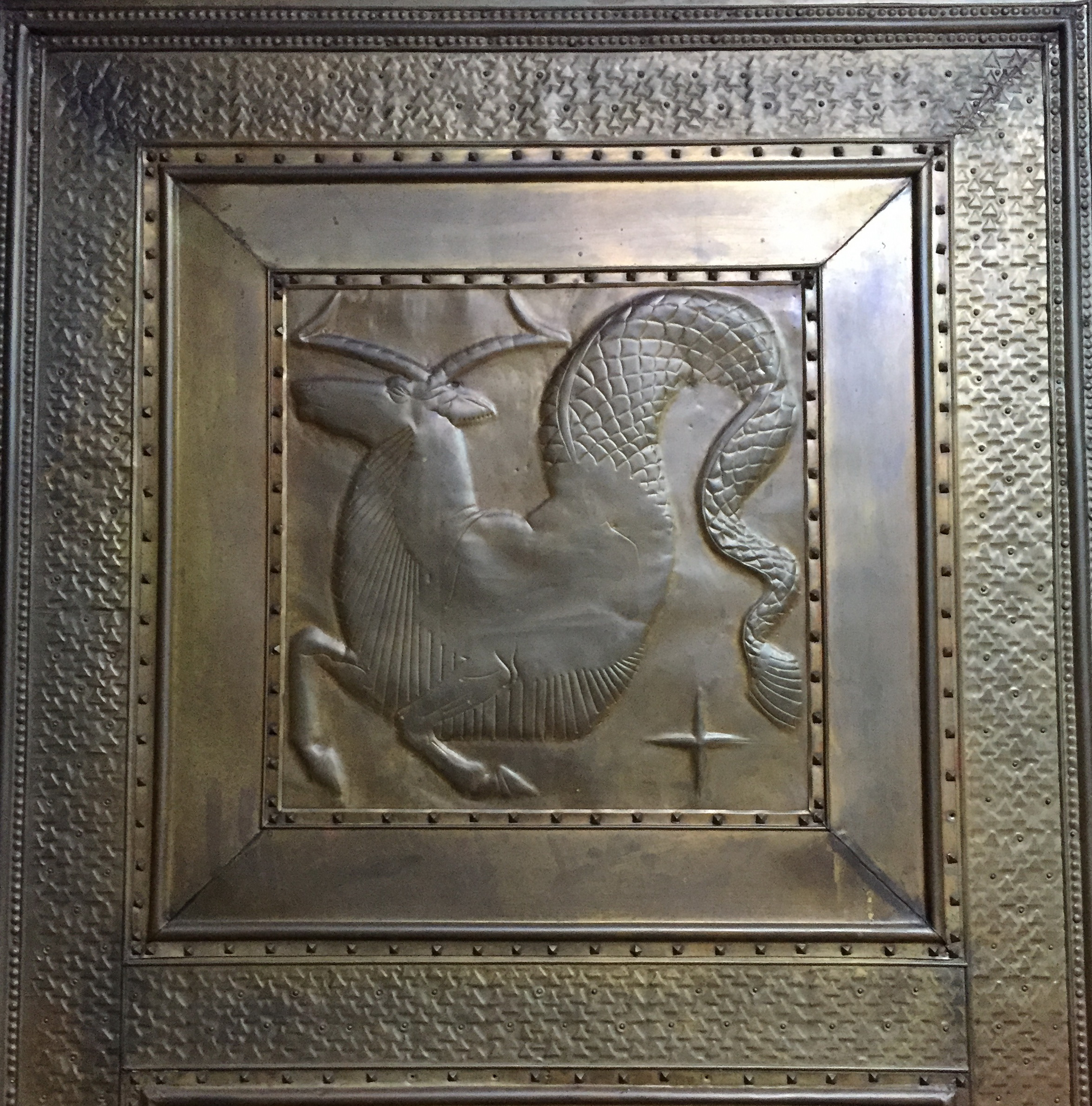 Neuchâtel, State Observatory, Pavillon Hirsch, hall, panel with a zodiac signe (Capricorn)